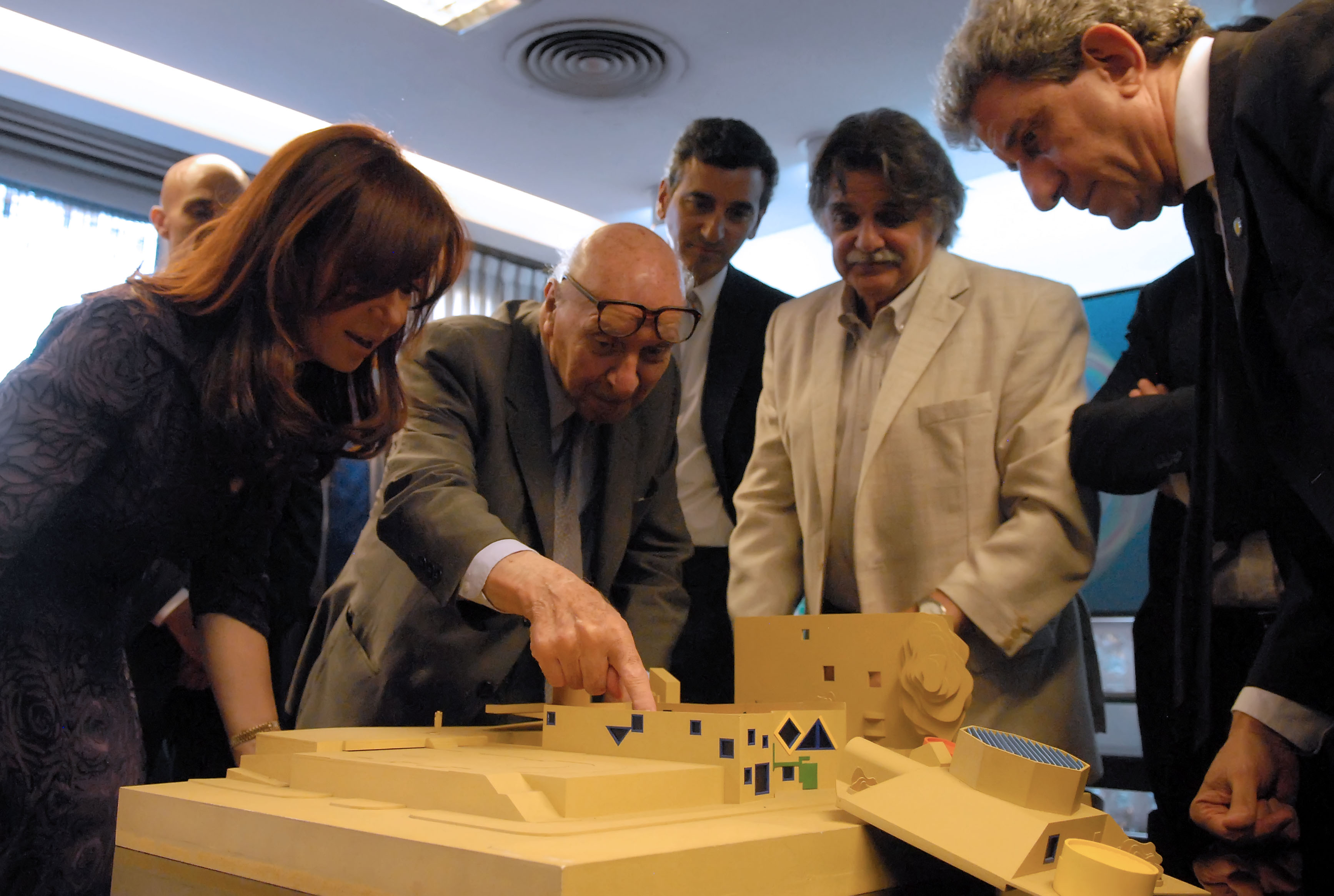 Clorindo Testa muestra a la presidenta Cristina Fernández de Kirchner, una maqueta en la Biblioteca Nacional. También la acompañan Florencio Randazzo y Horacio González.